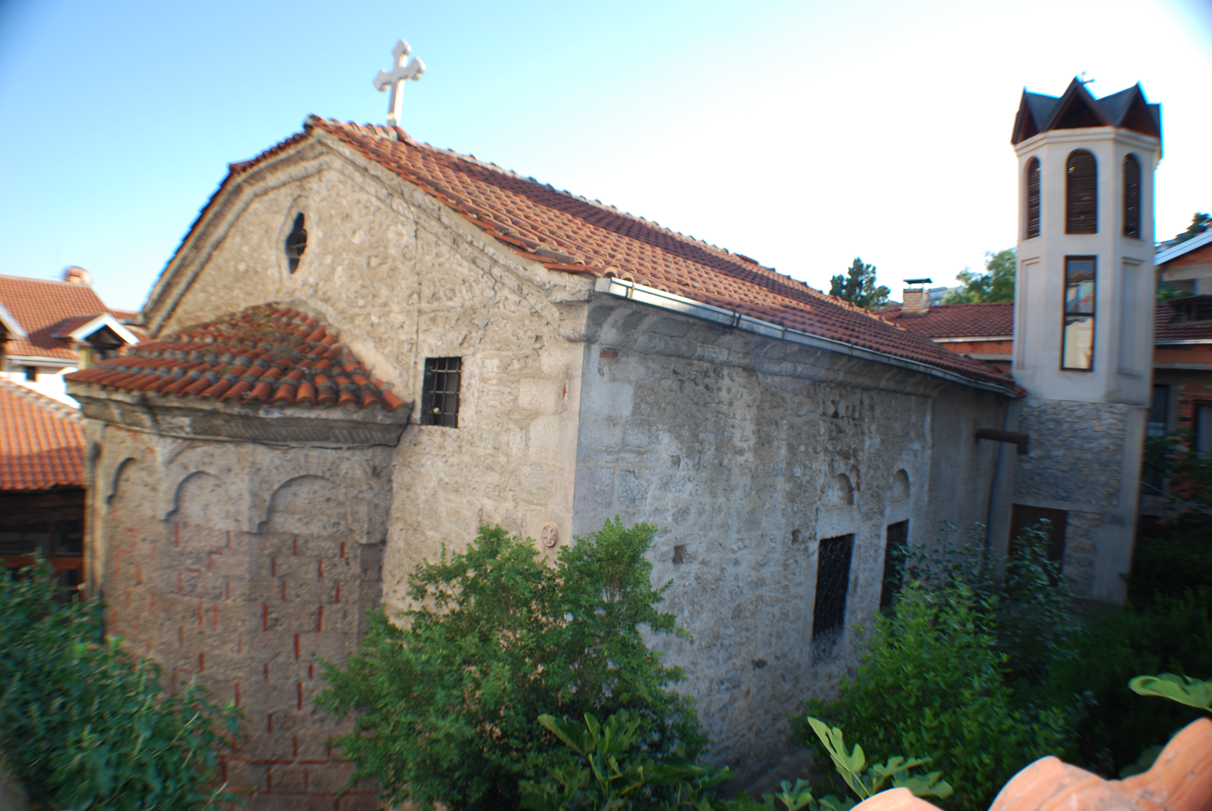 The St. Nicholas Gerakomija Church in Ohrid, Macedonia